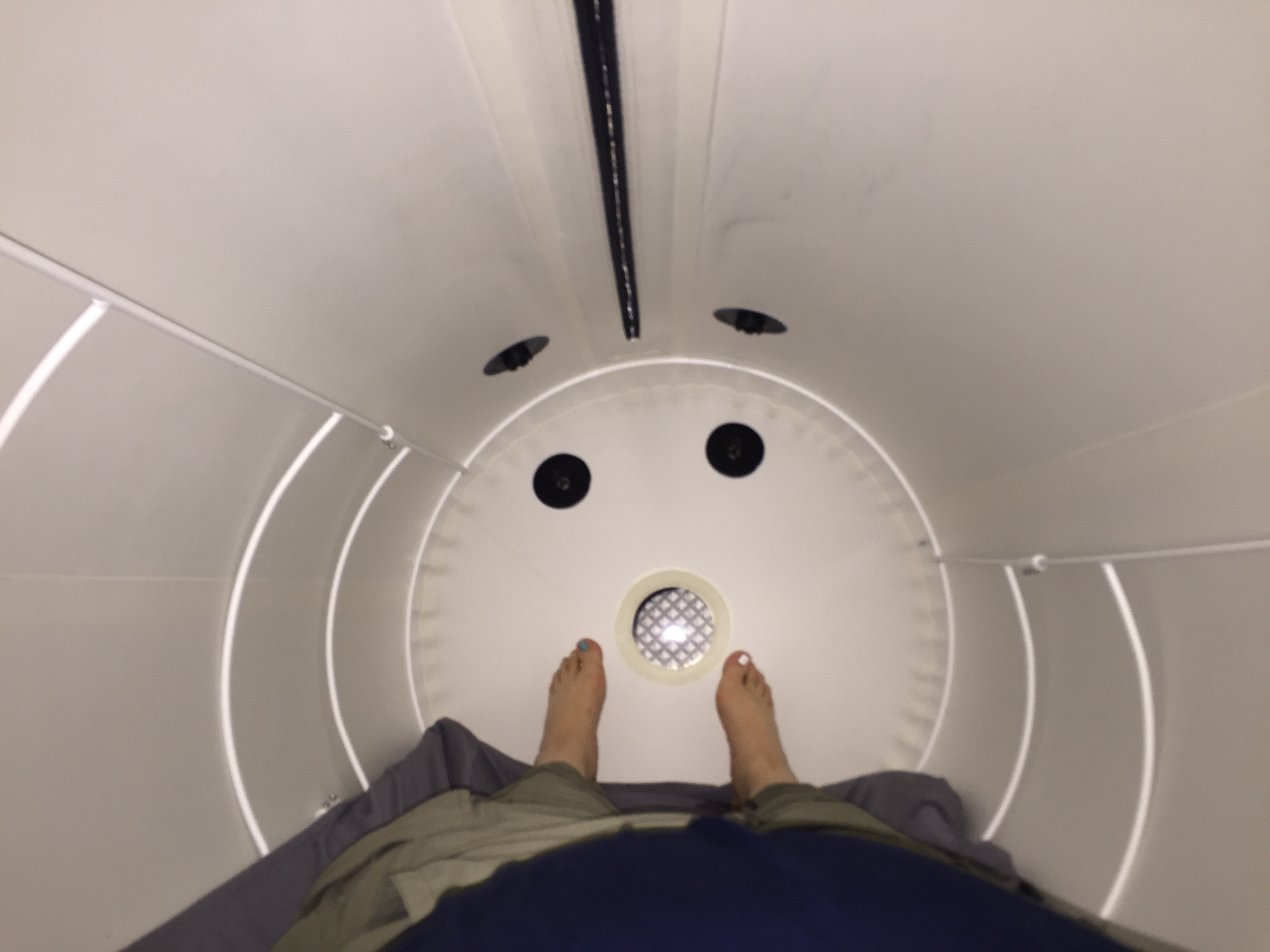 Inside of a hyperbaric oxygen therapy tank